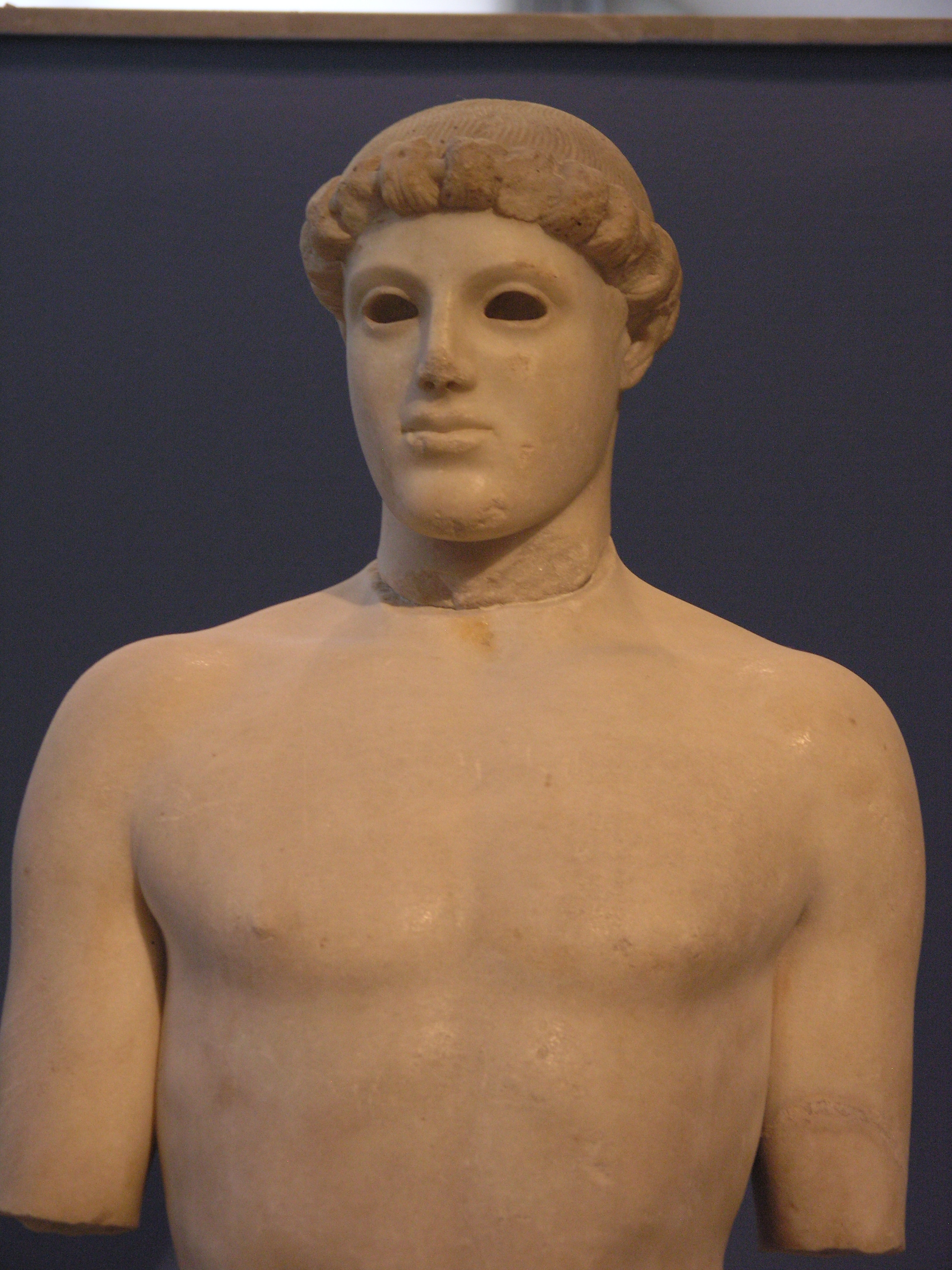 Statue of an ephebe, perhaps an athlete. Work attributed to Kritios and Nesiotes, by comparison with the Tyrannoktonoi group, one of their works known from Roman copies. Missing arms from elbows, left foot and ankle, right leg from below knee, inserted eyes. Damaged nose, chin, cheeks and neck.